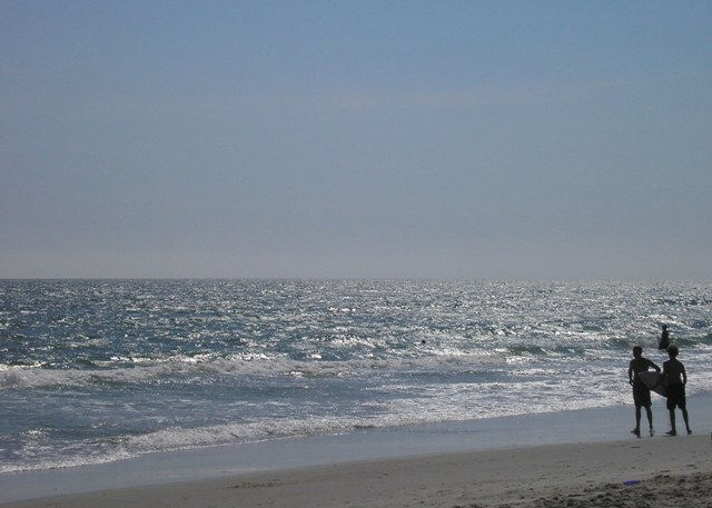 Atlantic Beach, North Carolina.